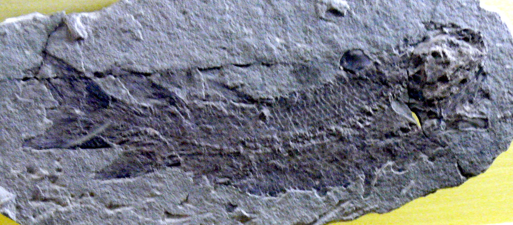 Eusthenopteron foordi WHITEAVES 1881, Devon, Scaumenac Bay, Canada